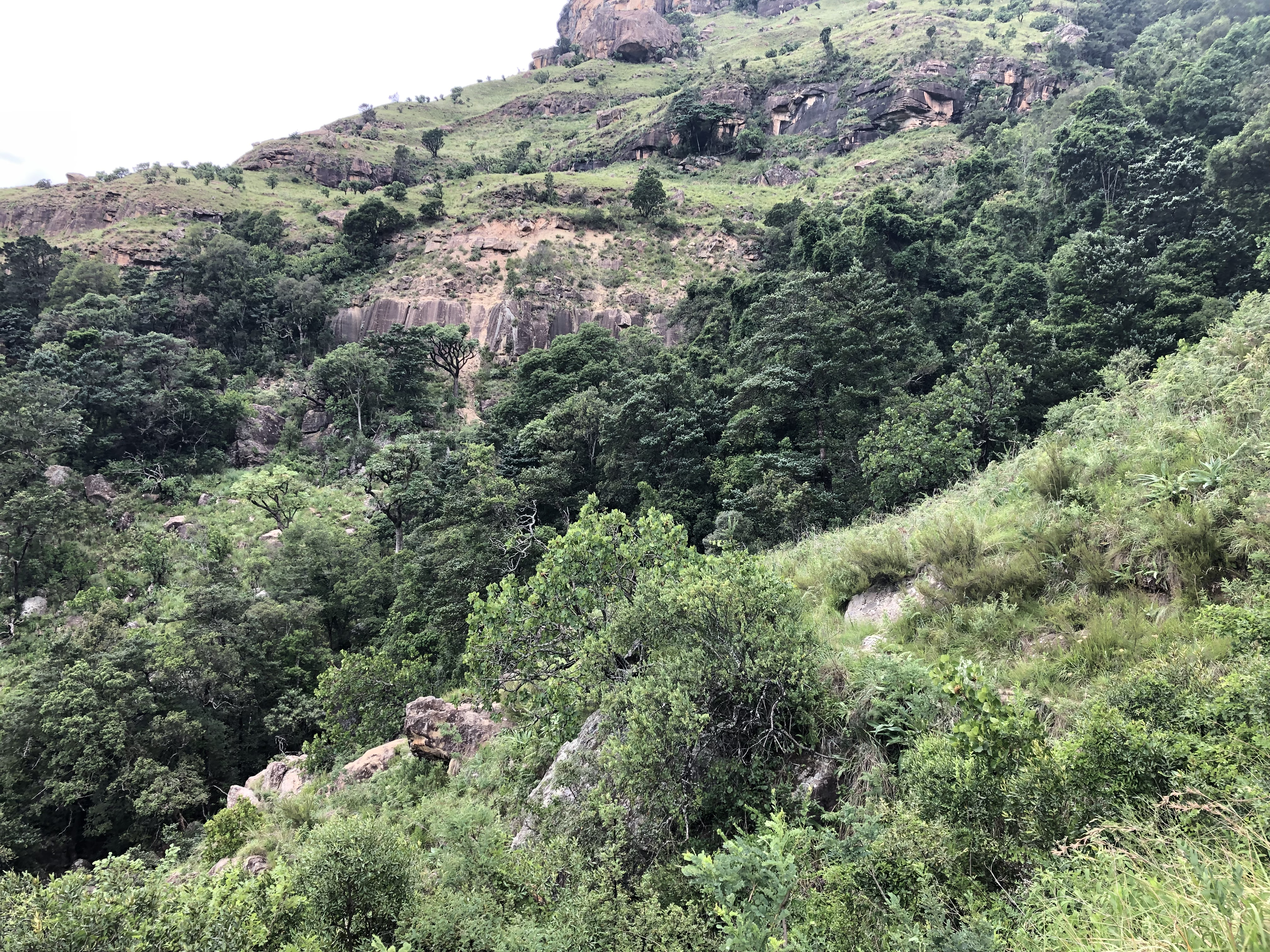 This is an image with the theme "Africa on the Move or Transport" from: South Africa